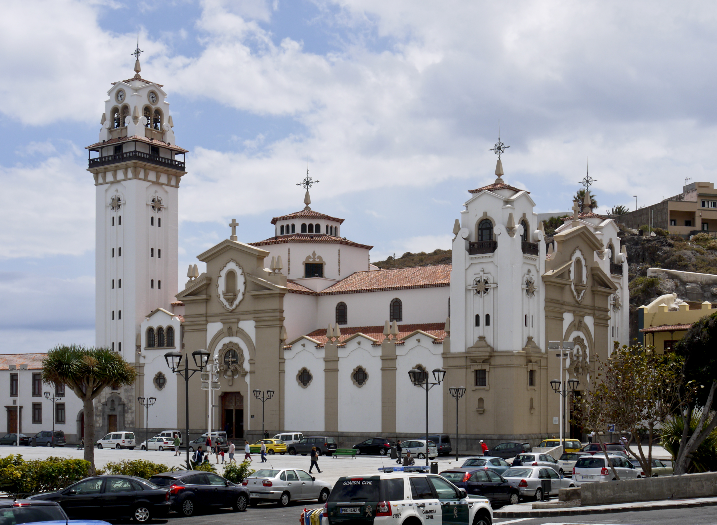 Basílica de Nuestra Señora de la Candelaria, Candelaria, Tenerife, Spain.